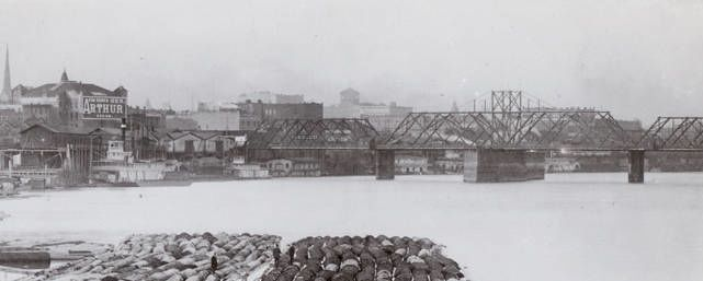 Madison Street Bridge No. 2 (rebuilt from Madison Street Bridge No. 1), at Portland, Oregon, across the Willamette River. Various steamboats are moored at Waterfront.